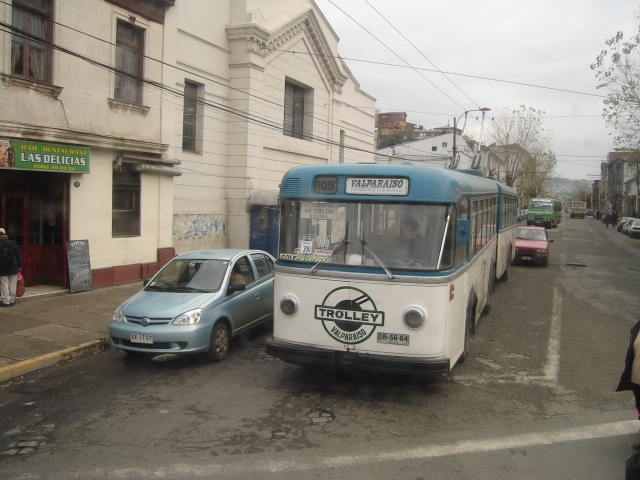 Valparaíso trolleybus No. 105 is ex-Zürich (Switzerland) 105, acquired by Valparaíso in 1991. It was built in 1959 by FBW. It is pictured eastbound on Avenida Colón, about to turn north onto Avenida Argentina, in 2005. Trolleybus 105 continued in regular service until around the end of May 2015.